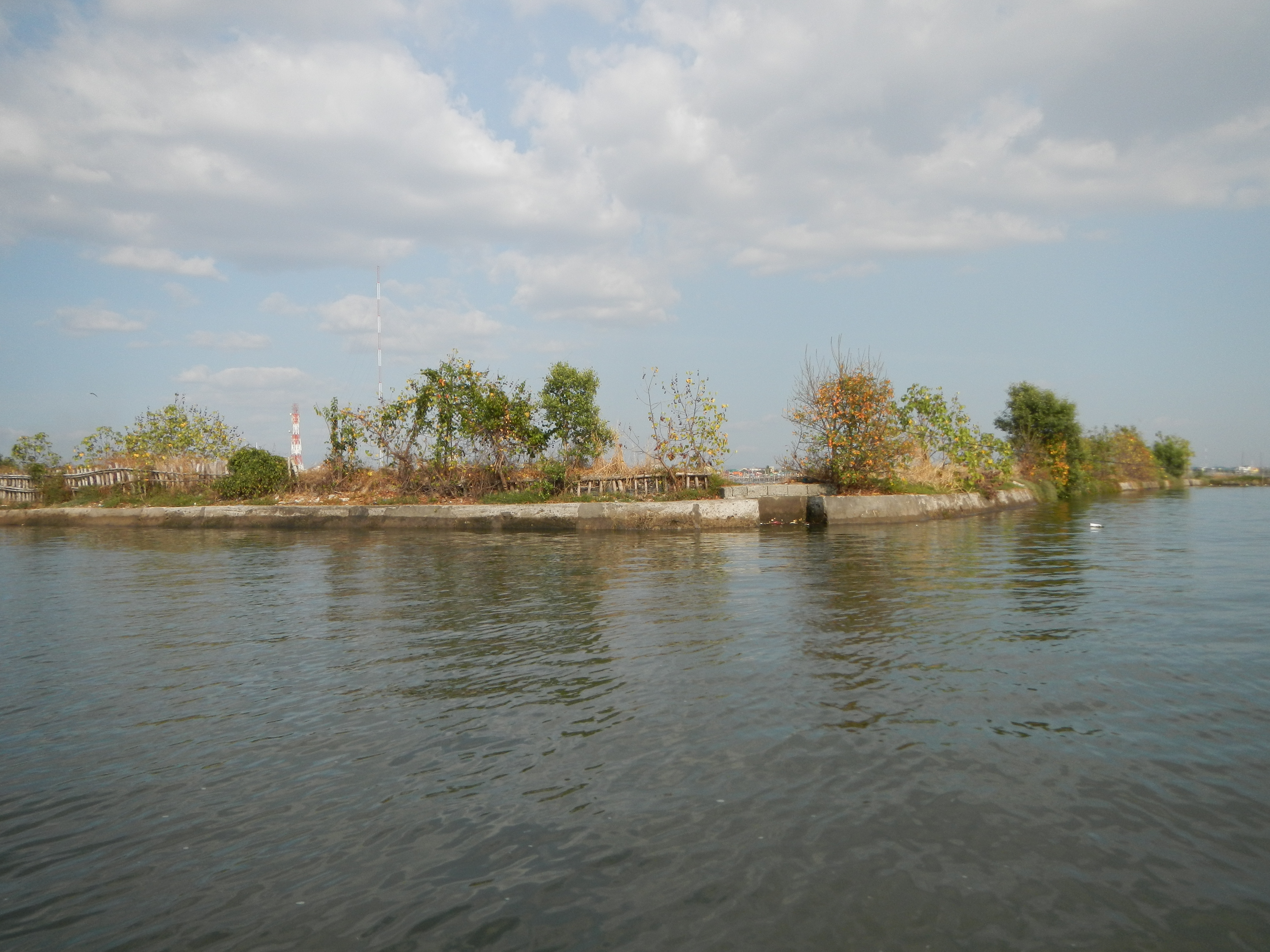 Marilao-Meycauayan-Obando River (MRS) - (Paliwas-Binuangan-Salambao, Obando, Bulacan River (Valenzuela-Obando-Meycauayan Mega Flood Control Project & Laureano R. Marquez Municipal Fish Port) - Valenzuela-Obando-Meycauayan Mega Flood Control Project - Obando B Paliwasan II Floodgate - Fishport Extension, Rehabilitation, Repair of Existing Tide Control Gate Structure Obando, Bulacan, November 19, 2014 - April 17, 2015 P 2.7 million cost - located in the Paliwas-Binuangan-Salambao, Obando, Bulacan River part of the Marilao-Meycauayan-Obando River (MRS), with Fishing boats in the Philippines in its Wharf or small port and harbour from and to the Laureano R. Marquez Municipal Fish Port in the Obando Public Market at Paliwas, Obando, Bulacan - gateway to 2 island barangays of Obando - Barangay Binuangan, Obando, Bulacan & Barangay Salambao, Obando, Bulacan).